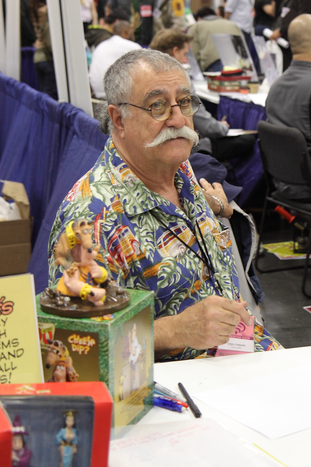 Sergio Aragonés, creator of Groo, sits with his merchandise at WonderCon 2009; the figures are blur and indistinct enough to qualify as de minimis.